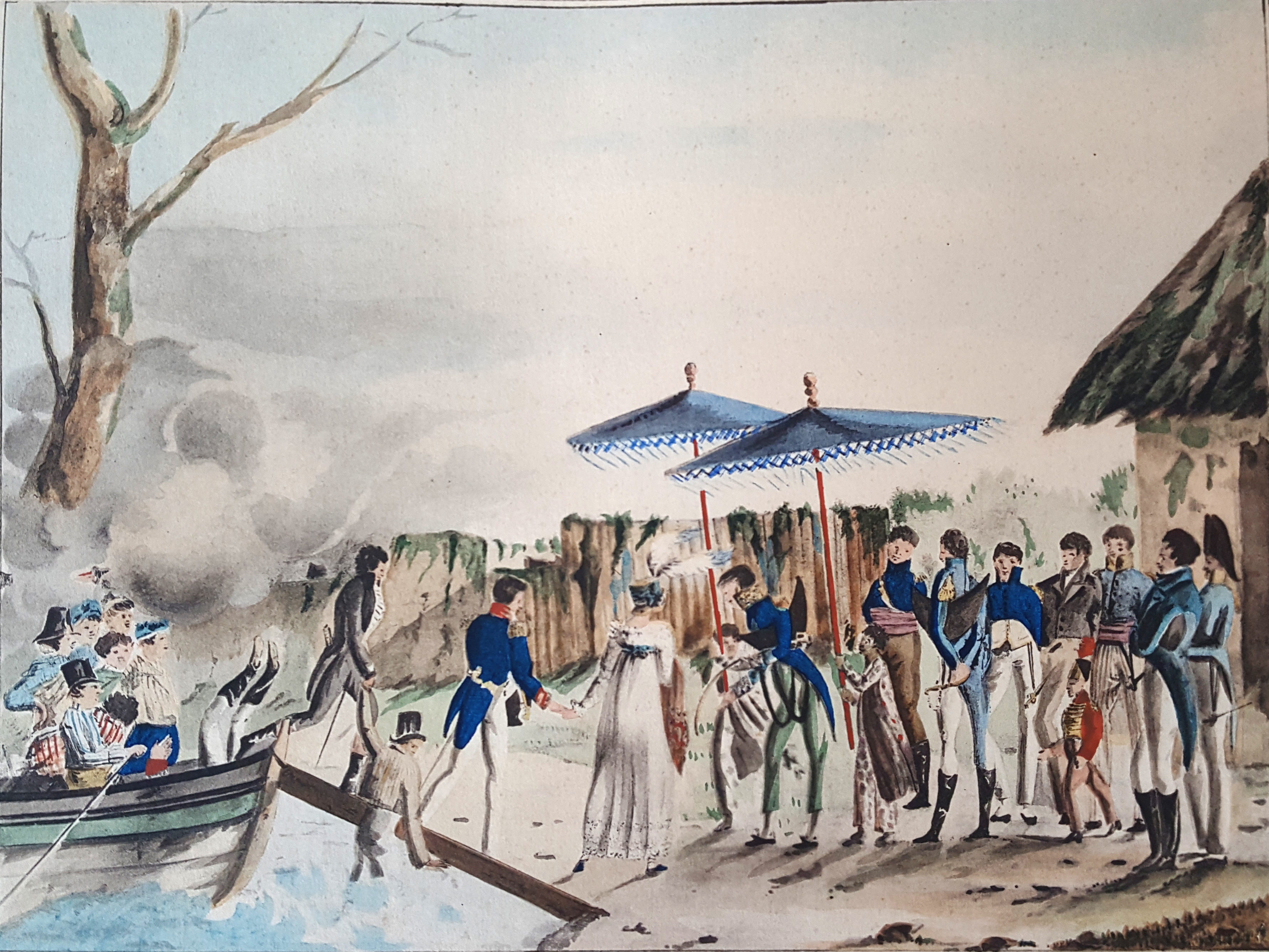 Rose de Freycinet at Timor, 1818, Campagne de l' "Uranie"(1817-1820), journal...d'après le manuscrit original accampangé de notes / par Charles Duplomb, State Library of New South Wales Q980/F